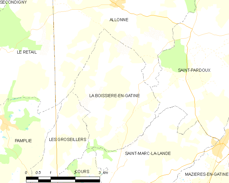 Map of French municipality La Boissière-en-Gâtine